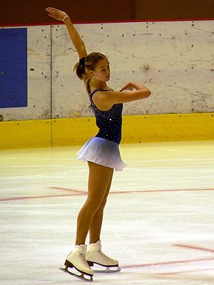 Laura Czarnotta during her free skate at the 2005 Junior Grand Prix event in Croatia